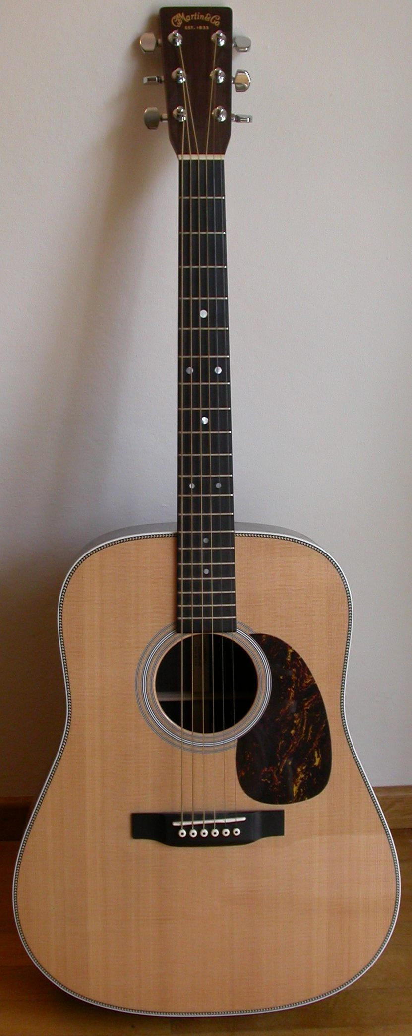 Martin HD28 owned by Max-B (The Radiostars)